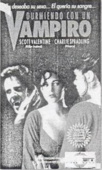 Spanish poster of 'To Sleep with a Vampire' starring Charlie Spradling.